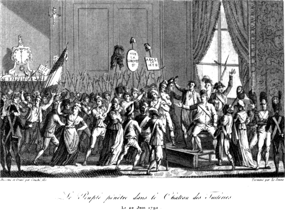 The People Storming the Tuileries on 20 June, 1792.